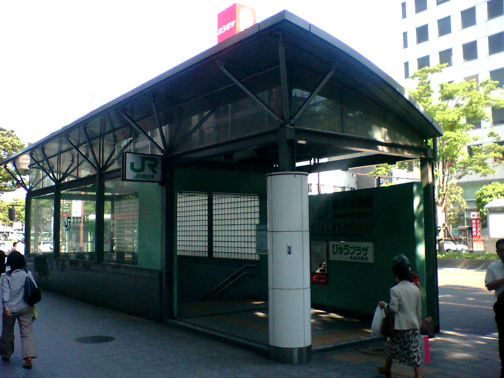 Aoba-Douri train station in Aoba-ku, Sendai, Miyagi.